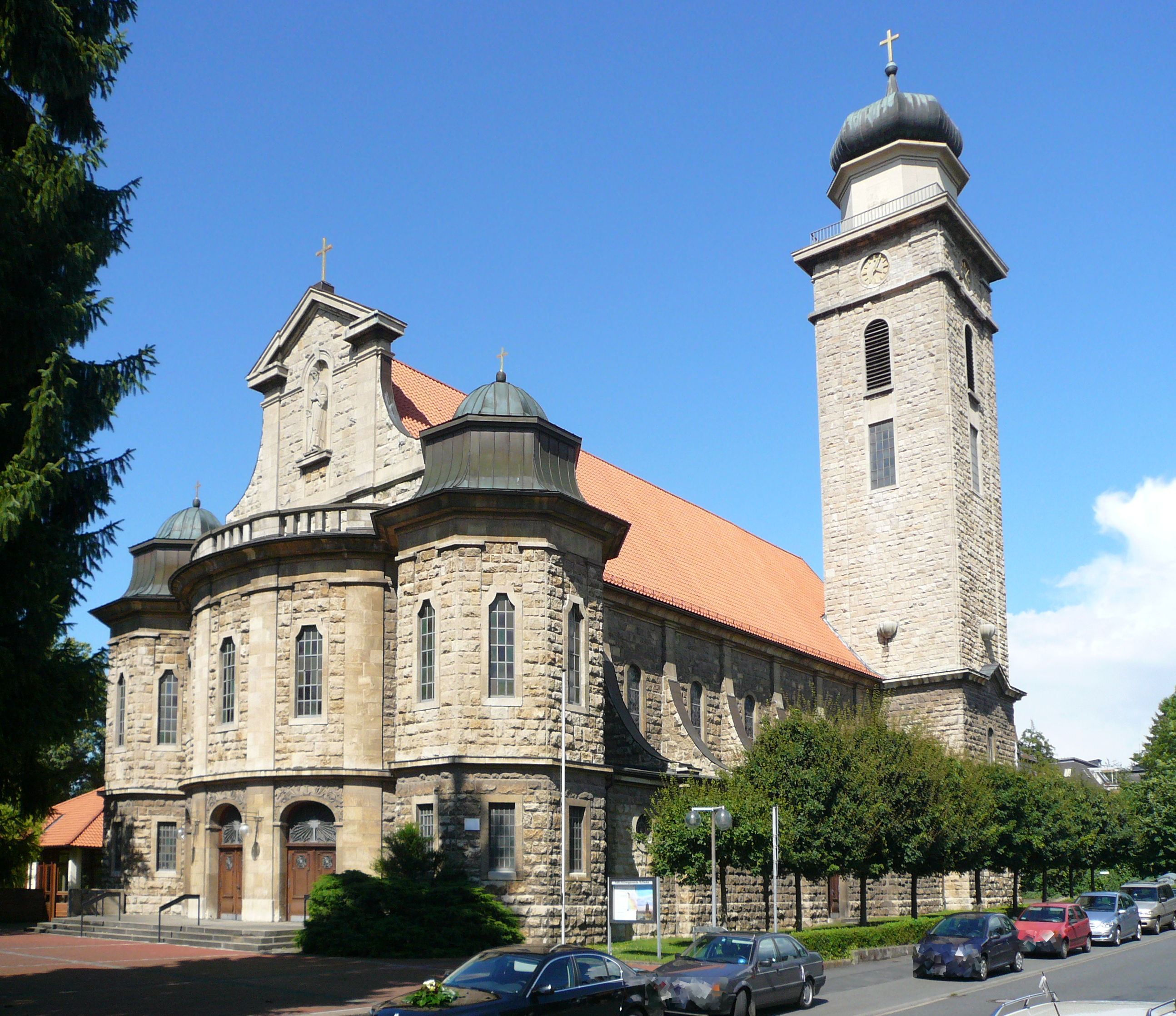 St. Paul's church in Goettingen (Lower Saxony, Germany)